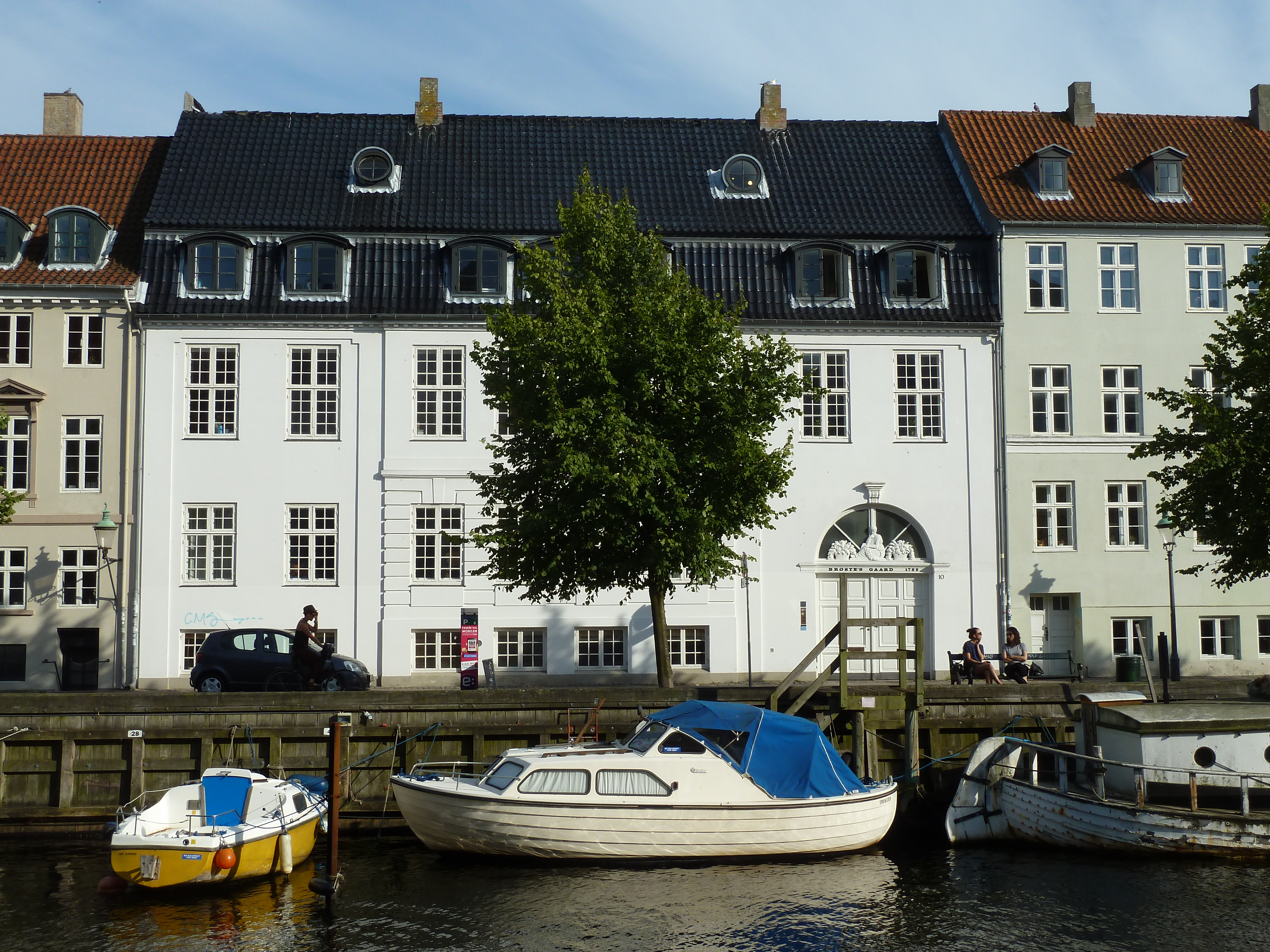 The building Brøstes Gård (or Petters Gård) at 10 Overgaden Oven Vandet in the Christianshavn neighbourhood of Copenhagen, Denmark